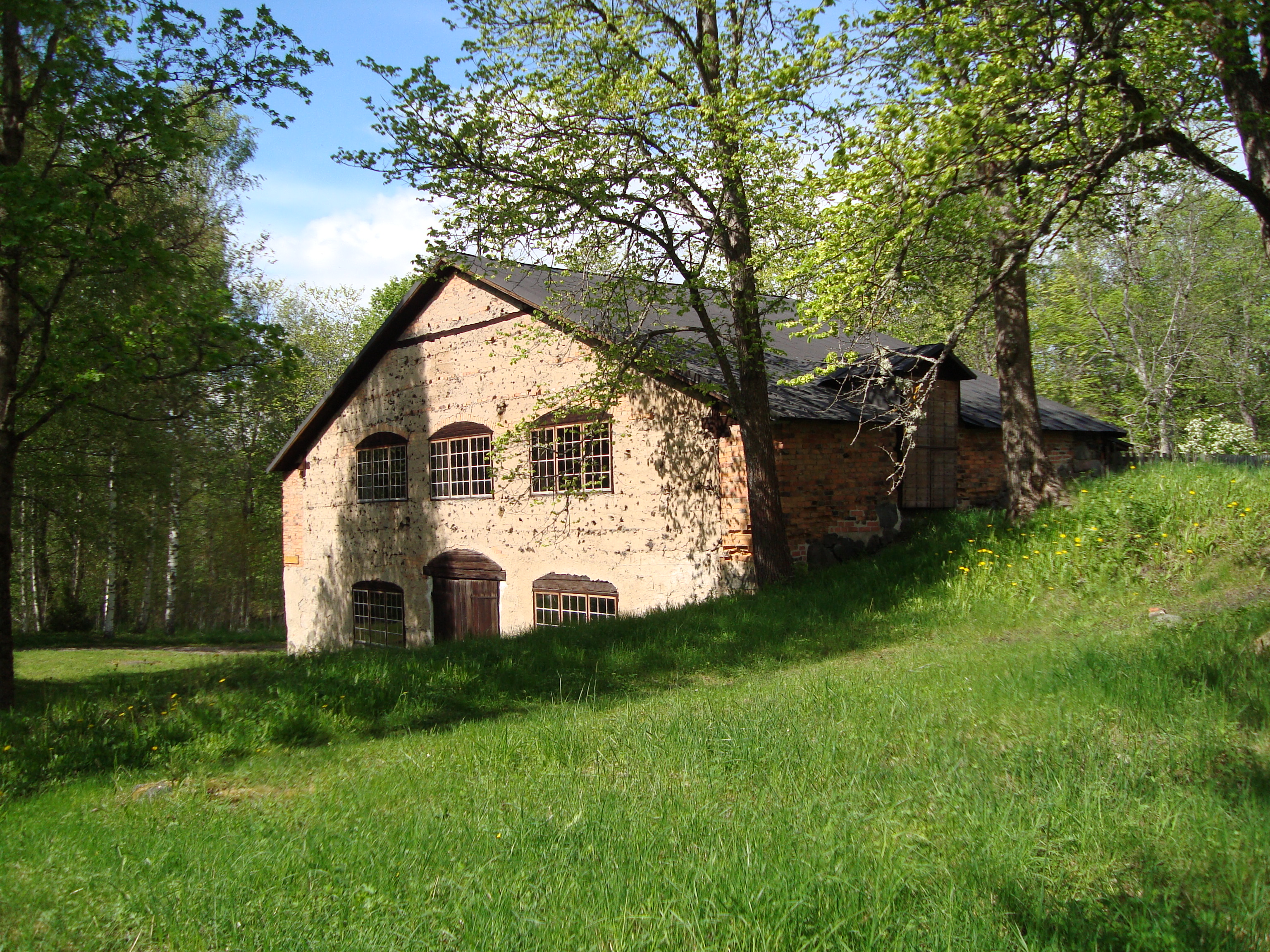 Gustaf de Lavals forge, where he invented a device for iron galvanization, the de Laval nozzle and made the prototype for the cream separator. Kloster, Hedemora municipality, Sweden